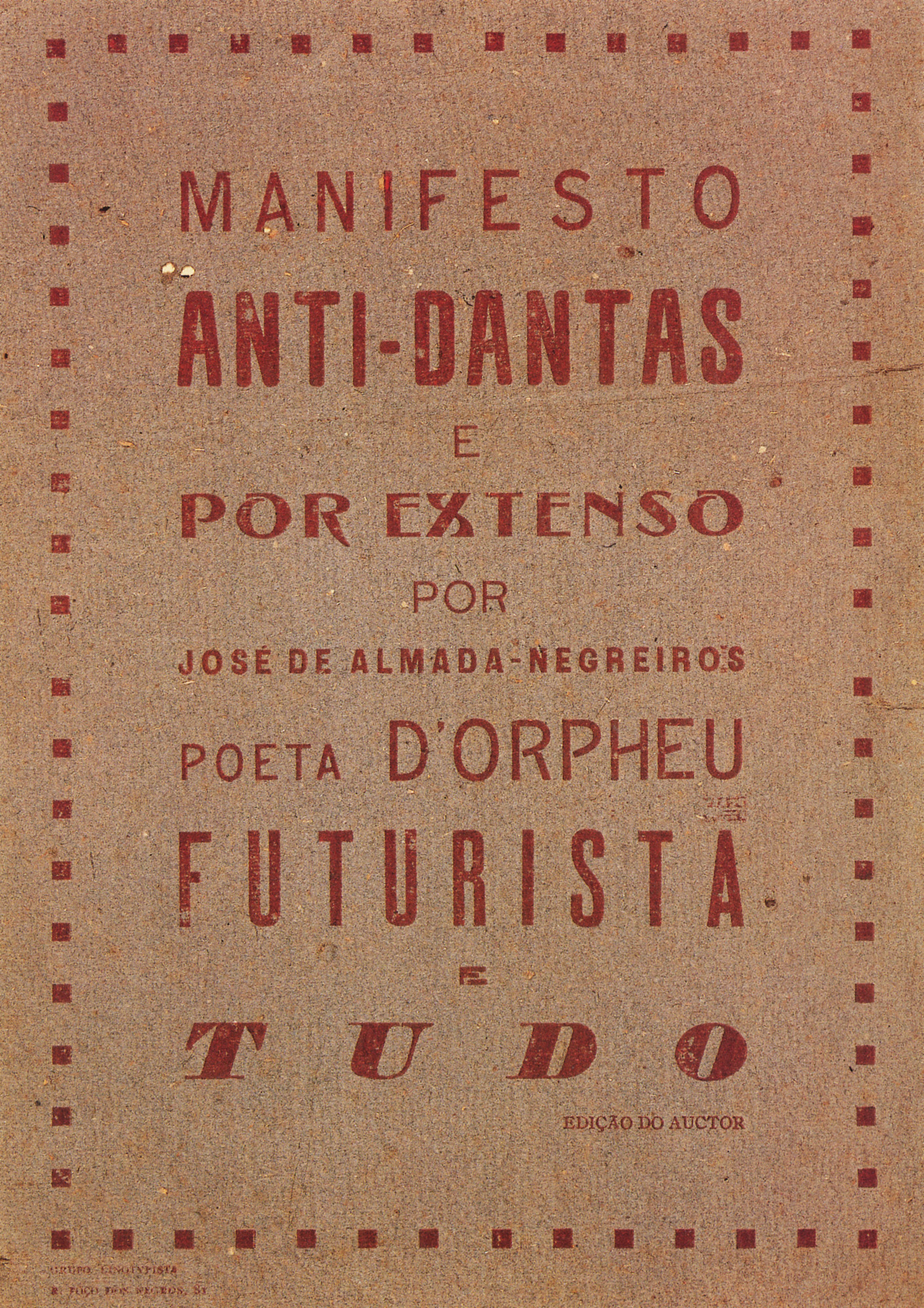 Anti-Dantas Manifesto, by Almada Negreiros, leaflet cover, 1915